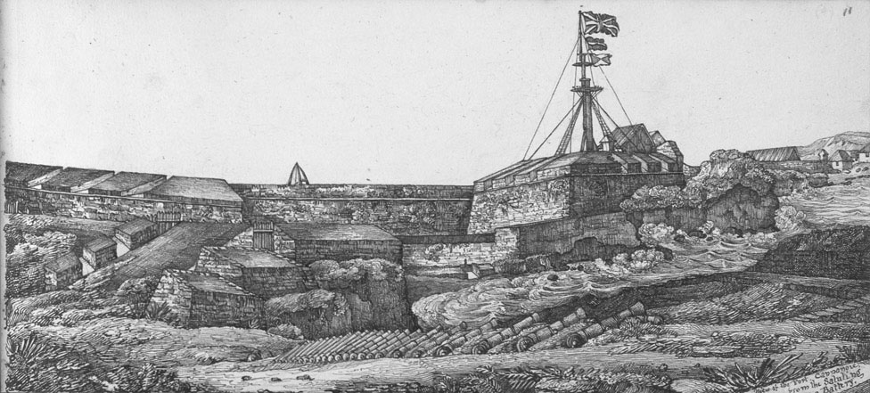 Pen-and-ink drawing of the fort at Kannur by Thomas Cussans (1796-1870). Cussans served in the Madras artillery in 1814, then the Horse Brigade from 1817 to 1829. This is one of 19 drawings (22 folios) of scenes in Mumbai (Bombay) and the south of India together with a few miscellaneous sketches taken between 1817 and c.1822. Inscribed on the cover of the album is: 'Thos Cussans Lt. Madras Artillery. Janry 1817'; and on the title page: 'Thos Cussans, July 30th, 1817' Kannur (Cannanore) is situated on a headland overlooking a picturesque bay in Kerala, in the south of India. Vasco da Gama (1460-1524) the Portuguese explorer who discovered an ocean route from Portugal to the East came to this area in 1498 and it subsequently became an important trading station. The fort of St. Angelo was constructed in 1505 by the first Portuguese Viceroy Don Francisco De Almeda with the consent of the ruling Kolathiri Raja. In 1656 the Dutch expelled the Portuguese and subsequently sold the town to a Moplah family (a community of Arab descent) who claimed sovereignty over the Laccadive Islands, a group of coral reefs and islands off the coast of Kerala. Moplah rule was terminated by the British who attacked and captured Kannur in 1790 and it became their most important military base in the south of India. The barracks, arsenal, cannons and the ruins of a chapel still stand in the fort as a testimony to its glorious history. This image falls into the public domain as it was taken in India prior to 1 January 1951, and was not published in India after that date. It is in public domain in the United States as well as it was taken prior to 1 January 1951.